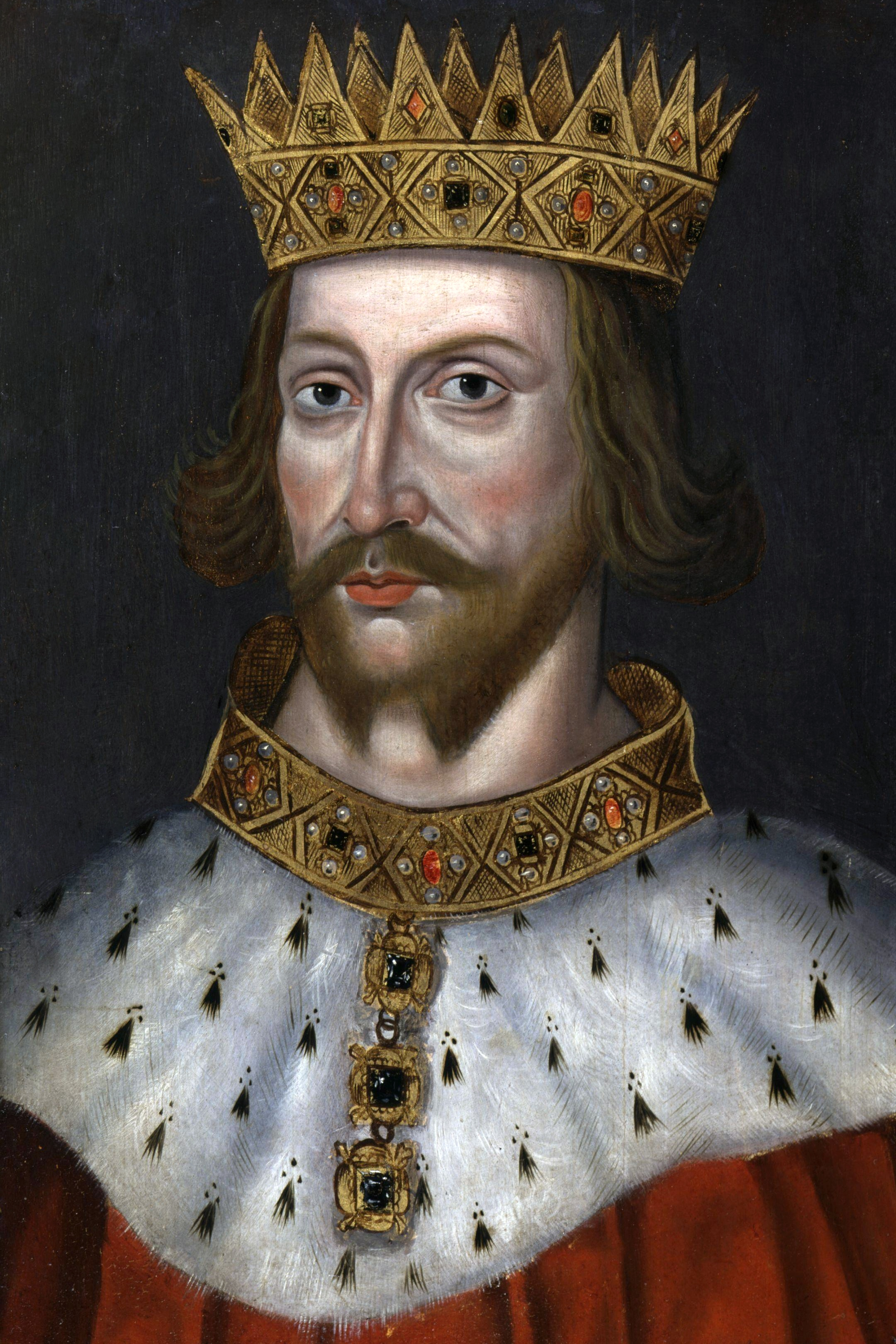 King Henry II, by an unknown artist. Oil on panel.